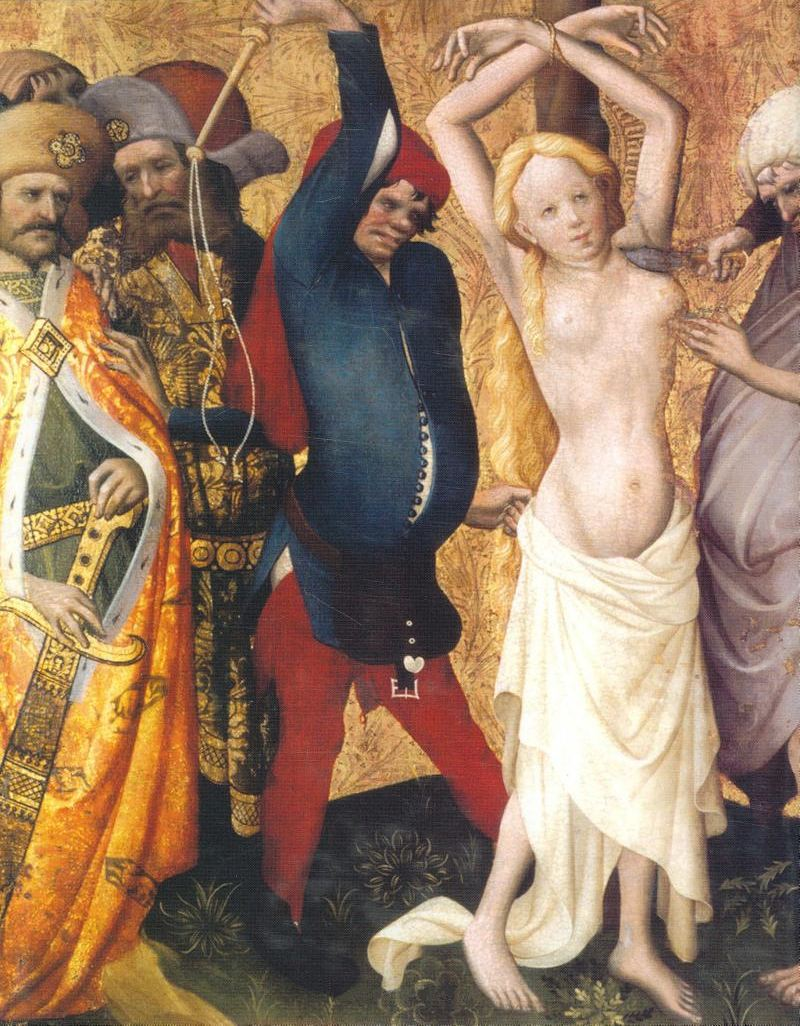 Meister Francke: Detail from the Barbara Altarpiece